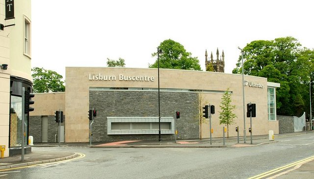 New bus station, Lisburn. See 854662. The new bus station (on the corner of the Hillsborough Road) looks complete but is not yet open.